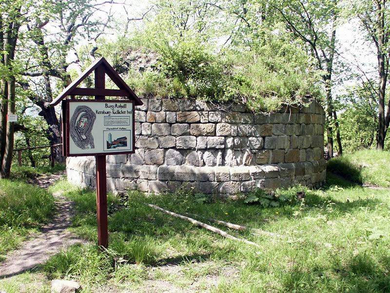 Foundation of the keep of Anhalt Castle, destroyed in 1140. Saxony-Anhalt, Germany